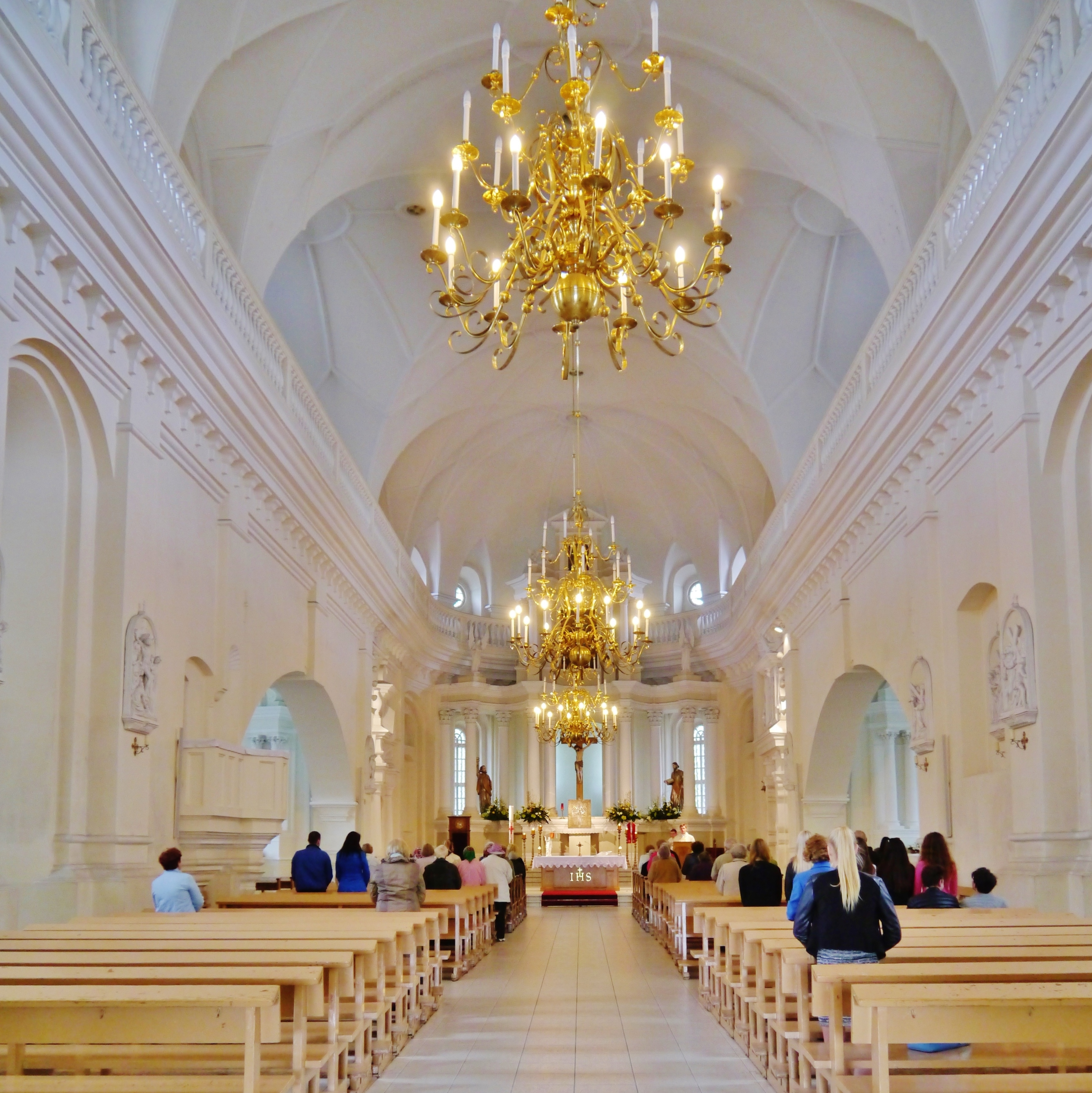 Nave of the Cathedral St. Anthony, Siauliai, Lithuania